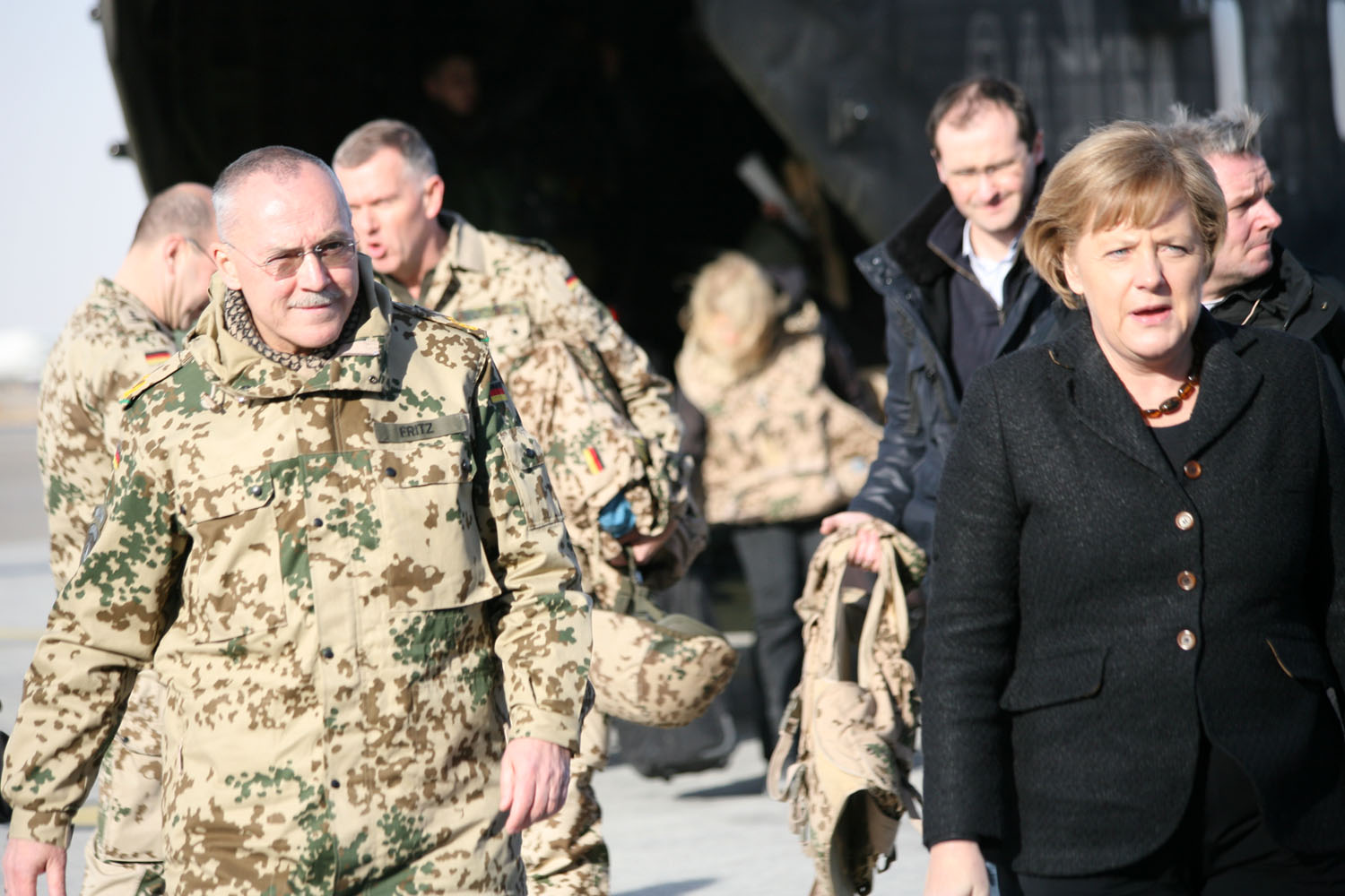 German Chancellor Angela Merkel on a visit with the German ISAF forces in Afghanistan. She is meeting with Major-General Hans-Werner Fritz, commander of the German forces in Afghanistan. origianl caption: A meeting was held between Gen. David H. Petraeus, commander, International Security Assistance Force, President of Afghanistan Hamid Karzai and Chancellor of Germany Angela D. Merkel, at Headquarters Regional Command North Dec. 18. ISAF RC North supports Afghanistan in creating a functioning government and administration structure, while preserving Afghan traditions and culture. (U.S. Navy photo/Mass Communication Specialist 2nd class Jason Johnston)